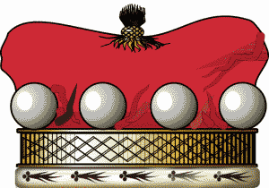 Baron's coronet (English).